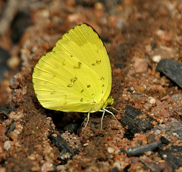 Three-spot Grass Yellow Eurema blanda in Talakona forest, in Chittoor District of Andhra Pradesh, India.